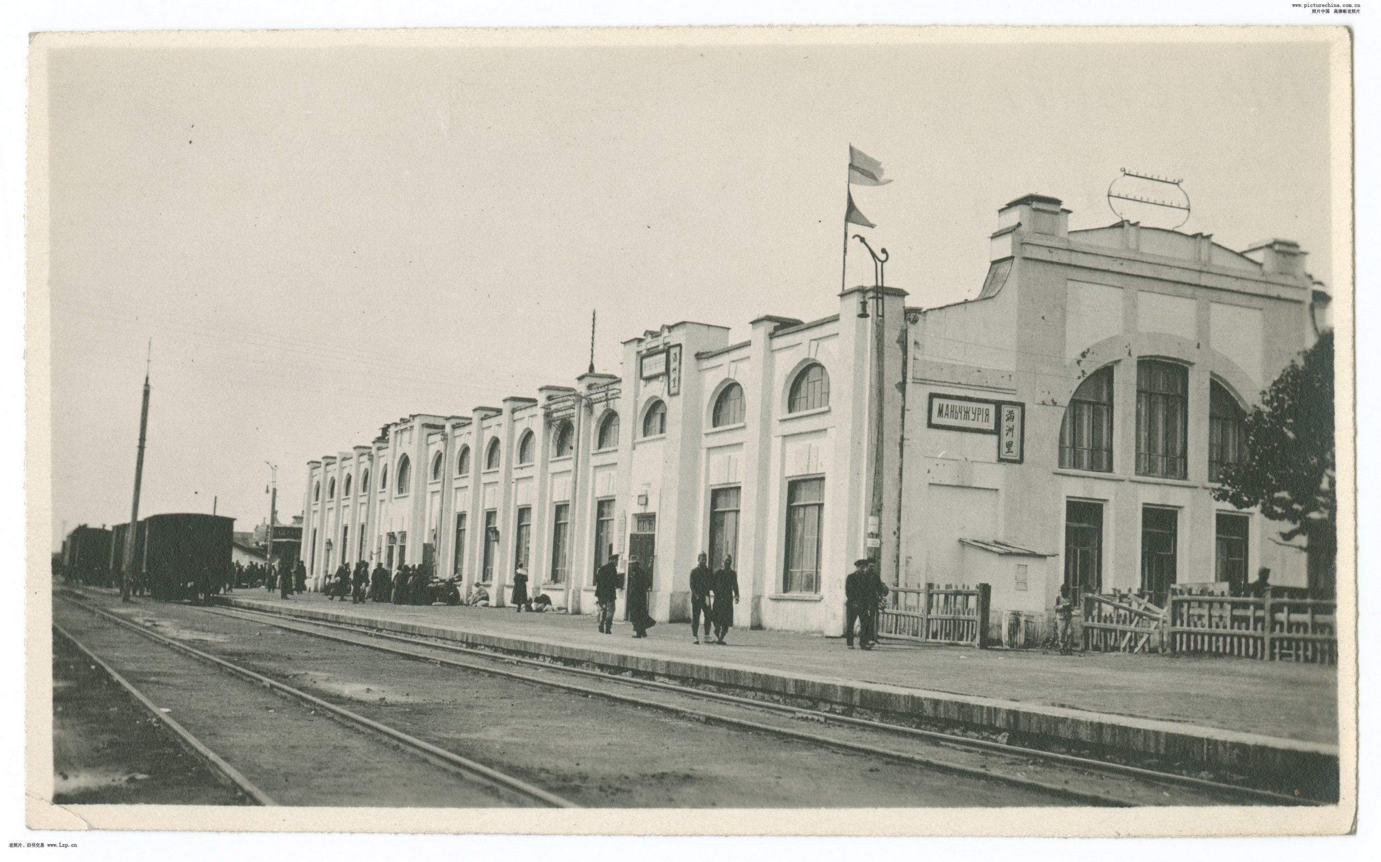 Old Manzhouli Railway Station